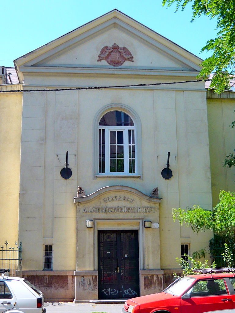 Animal Health and Animal Welfare Directorate - the central building in Tábornok street 2, Budapest, 14th District